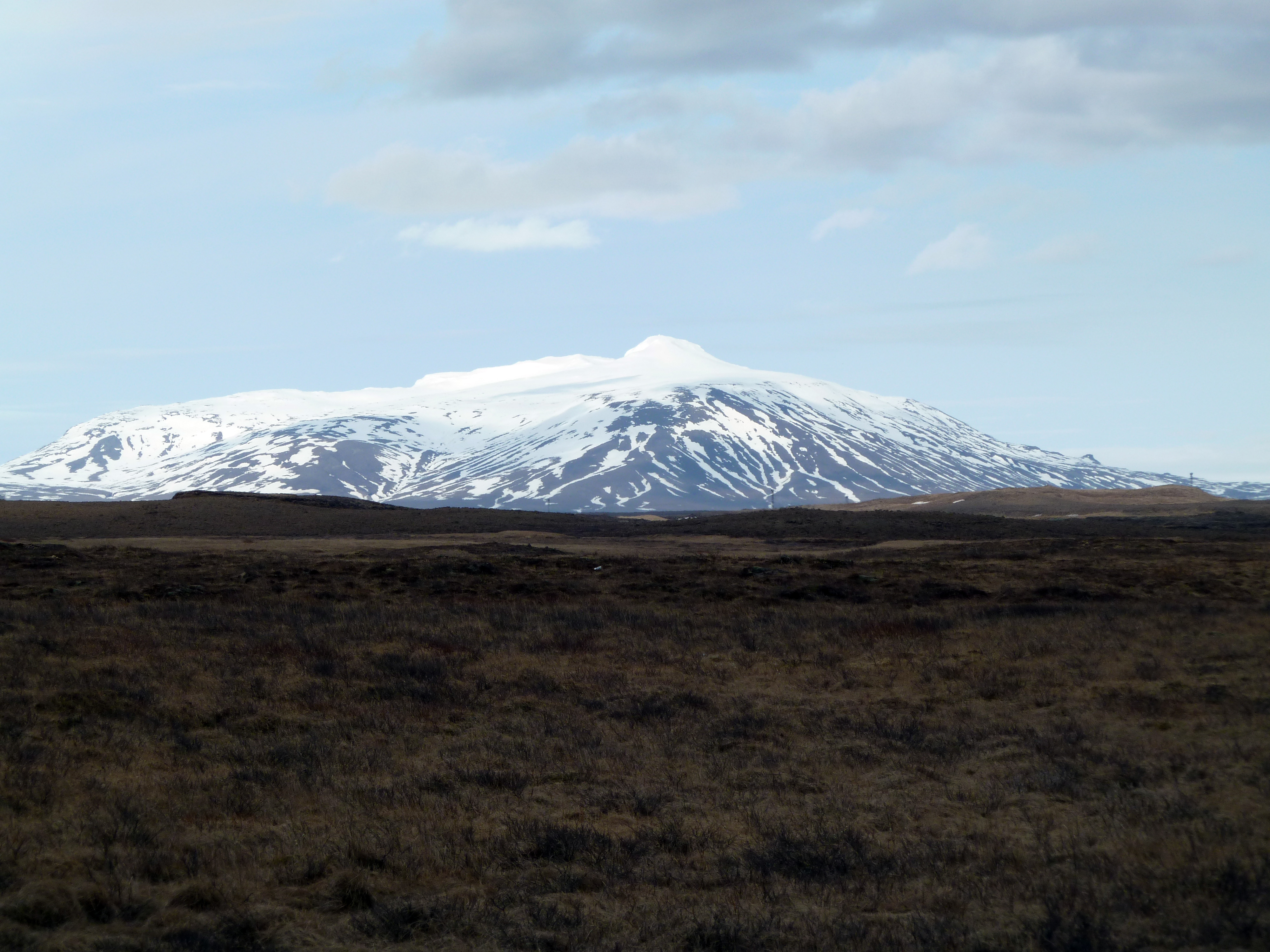 View from Gullfoss